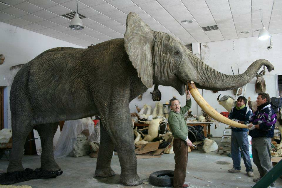 African elephant taxidermy by Salvatore Rabito from Artis Fauna S.L (Spain)